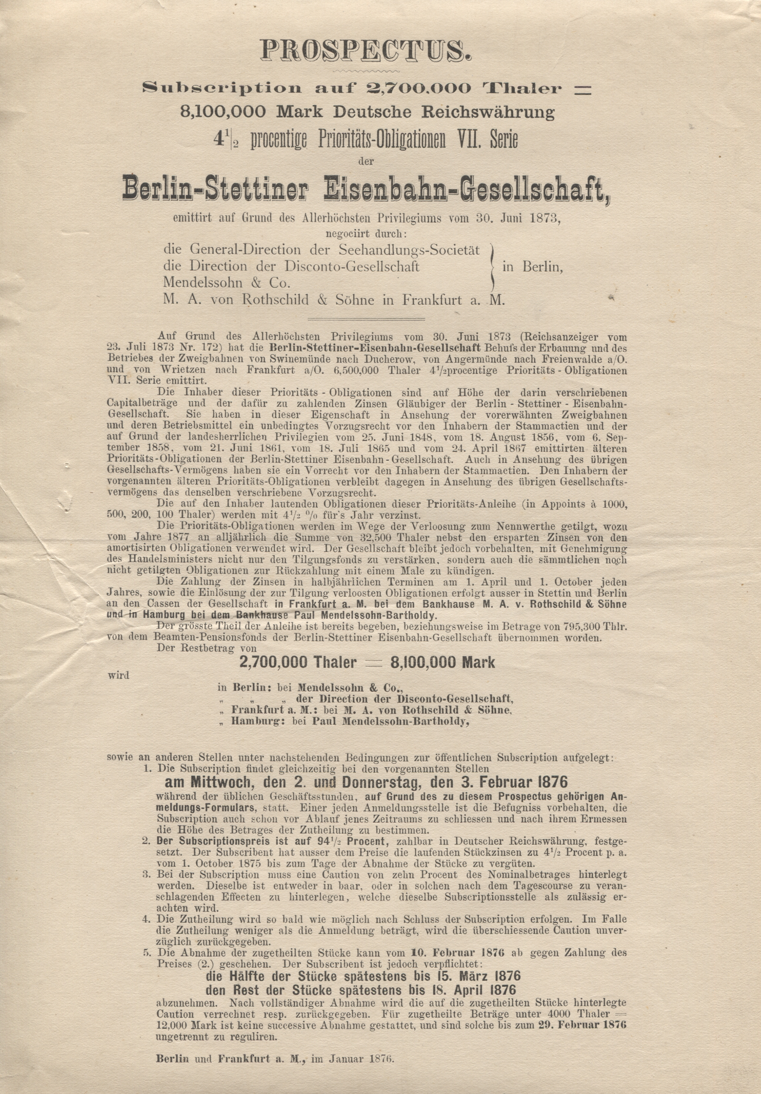 Prospectus of the 1876 bonds of the Berlin-Stettin Railway Company